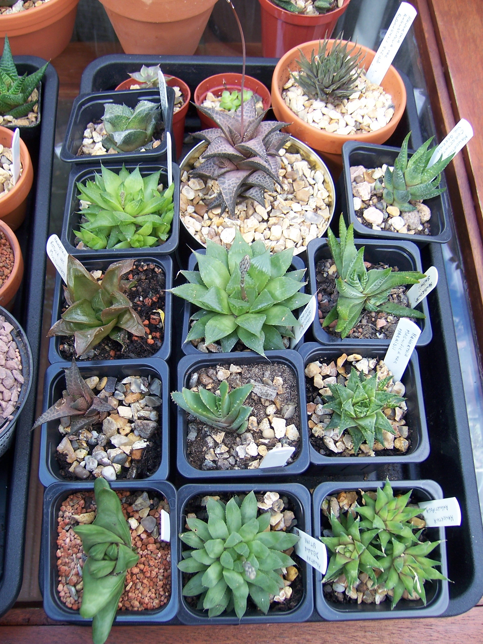 Haworthia